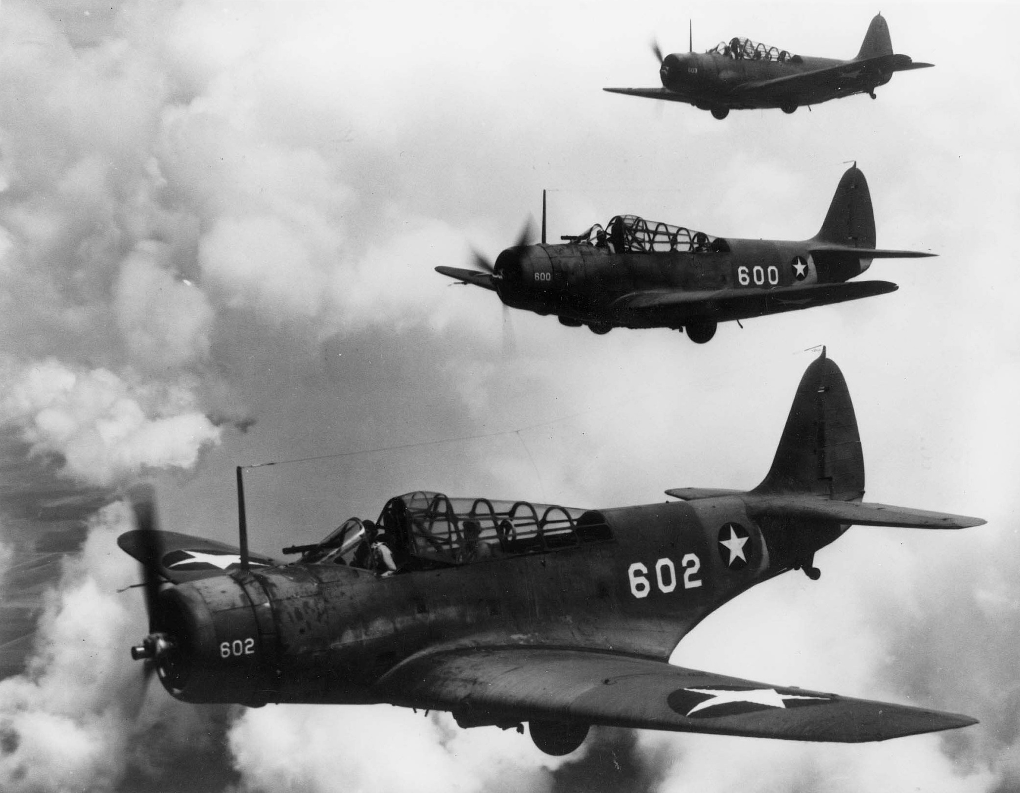 Three U.S. Navy Douglas TBD-1 Devastators assigned to the Naval Operational Training Command at Naval Air Station Miami, Florida (USA), in flight over South Florida, 1942/43. NAS Miami and NAS Ft. Lauderdale were home to Operational Training Units for the instruction of U.S. Navy torpedo-bomber pilots. The last TBD was retired in early 1944.